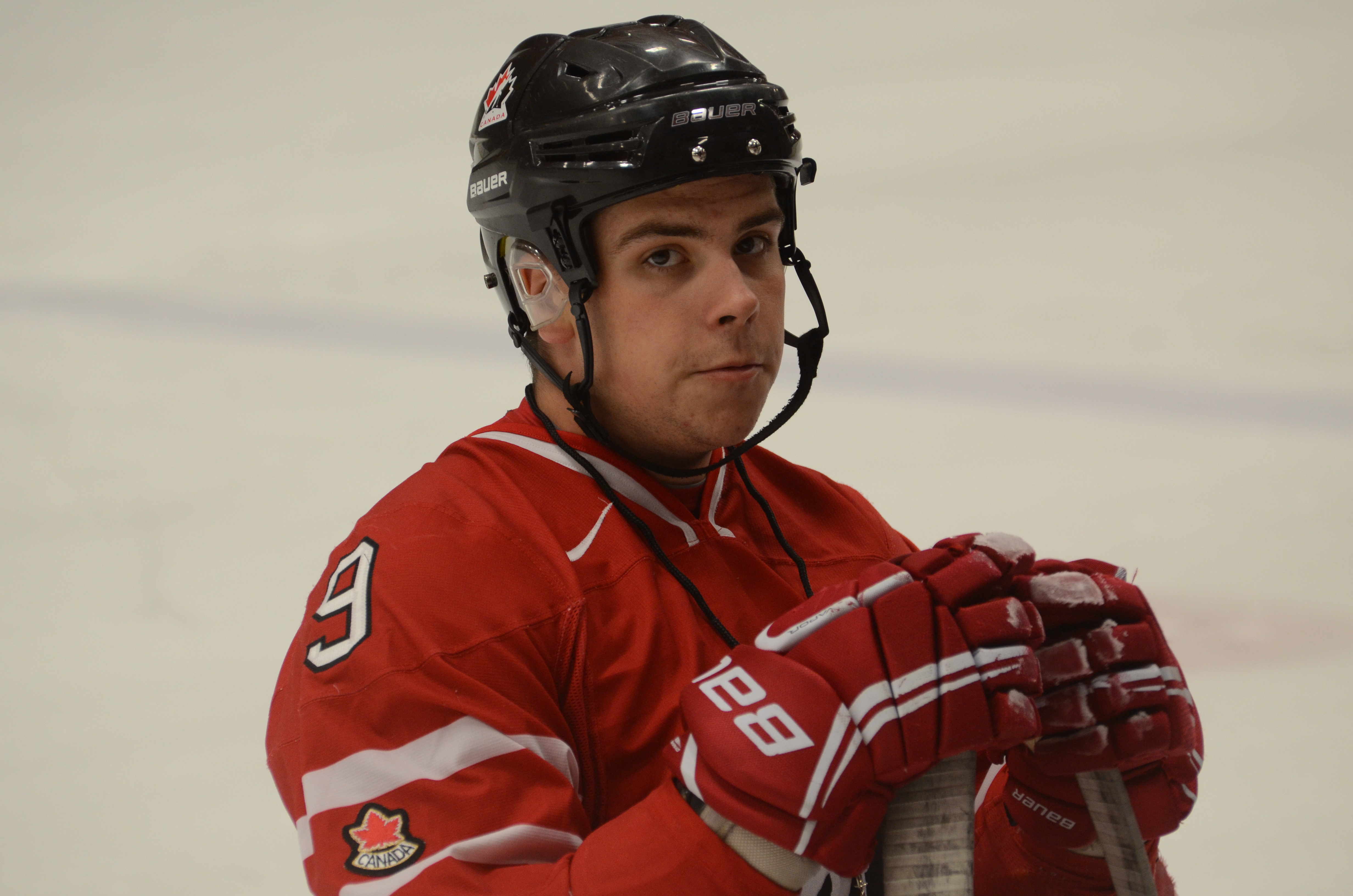 Sledge hockey player Anthony Gale